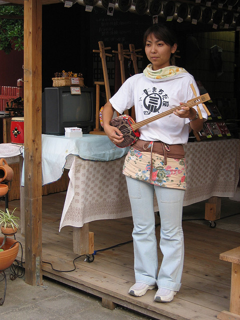 A street sanshin player